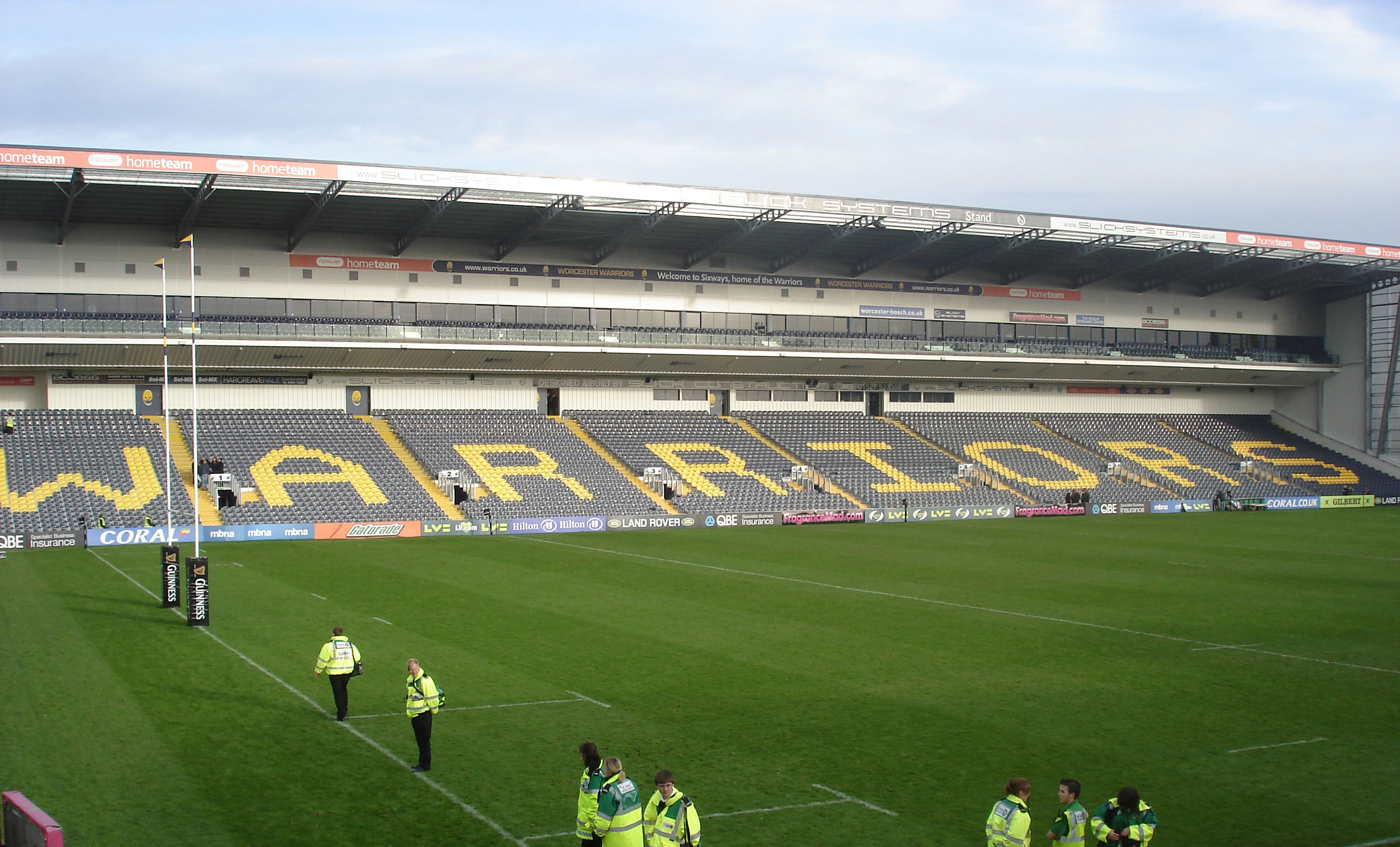 Picture of the Slick Systems Stand to the East of the Sixways Stadium where the Worcester Warriors play.